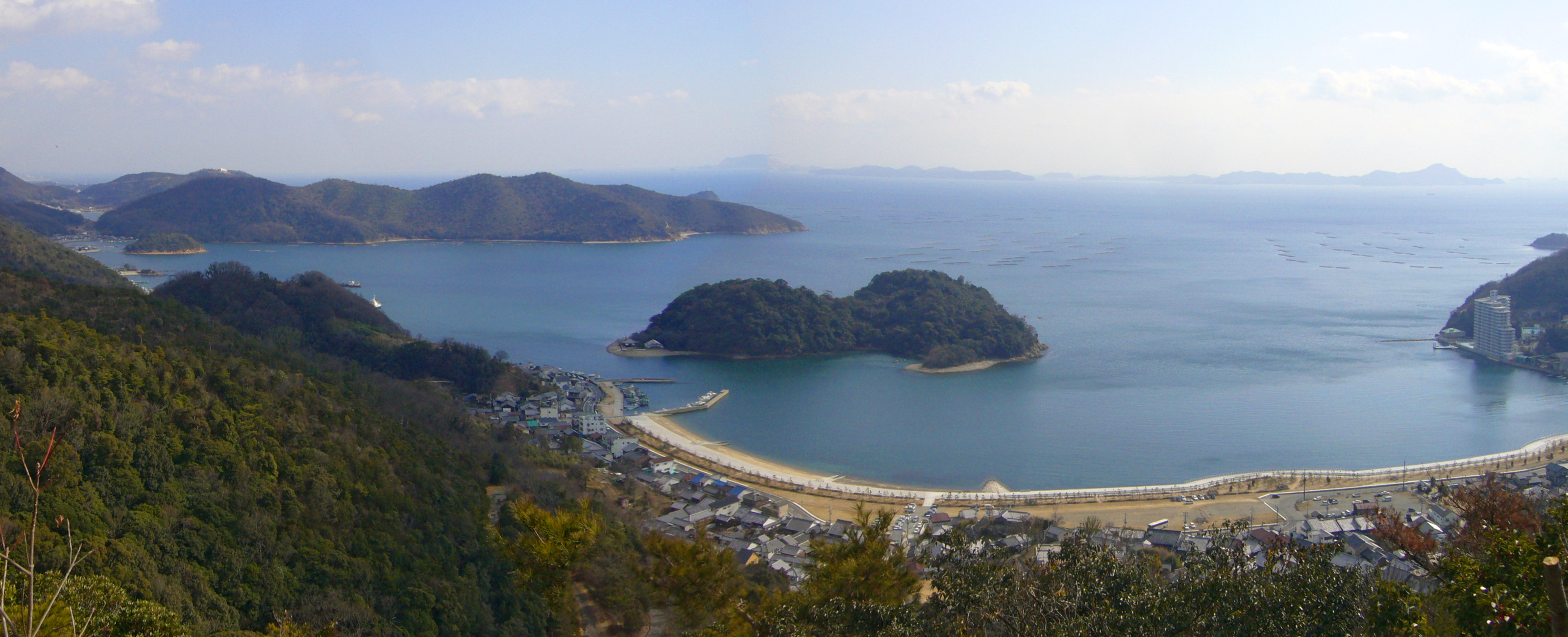 Ikishima and Sakoshi Harbor view from Chausuyama Castle in Ako, Hyogo prefecture, Japan